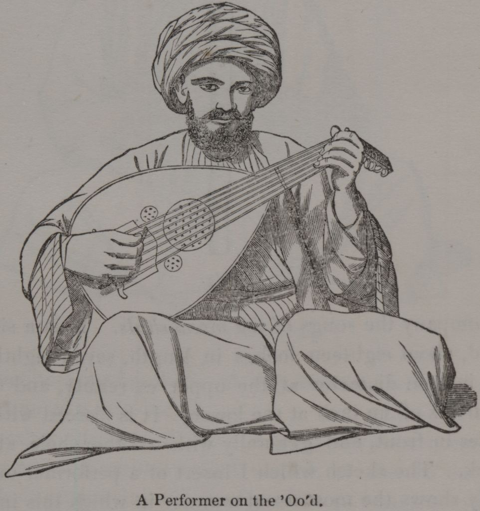 A man sitting cross-legged playing Oo'd. . Engraving (prints).